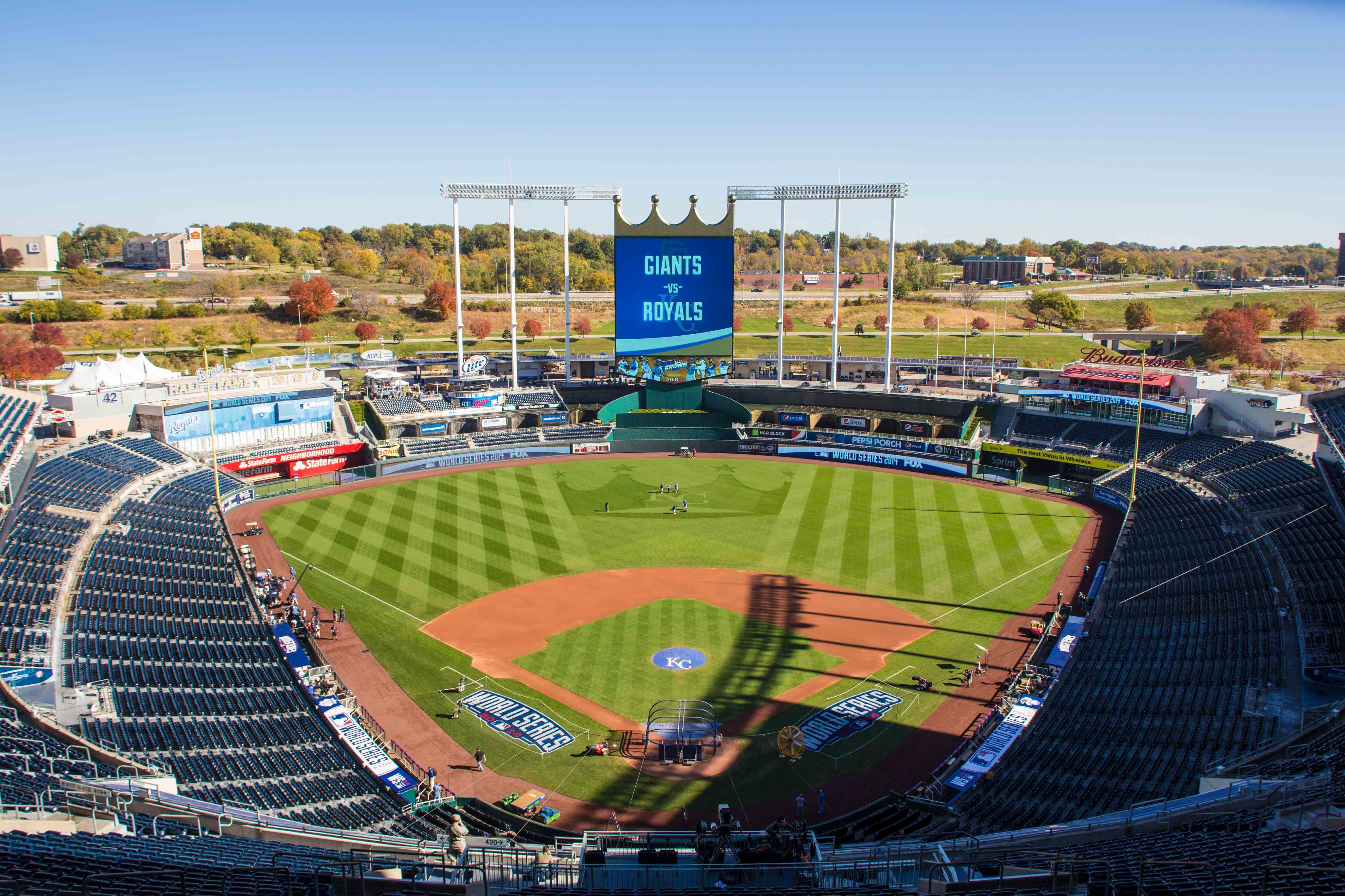 U.S. soldiers and airman from the 7th Weapons of Mass Destruction Civil Support Team (CST), Missouri National Guard survey for radiation at Kauffman Stadium in Kansas City, Mo. Oct. 20, 2014. The 7th CST worked with federal and local agencies to insure a safe environment during the 2014 World Series against the Kansas City Royals and San Francisco Giants. (Air National Guard photo by Senior Airman Patrick P. Evenson/Released)